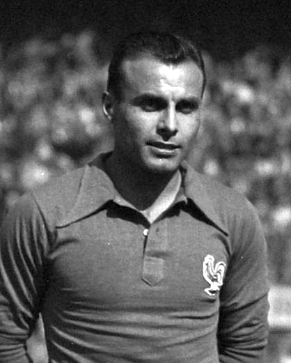 Louis Hon.